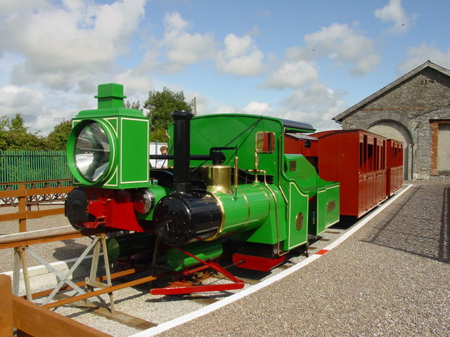 The Lartigue Monorail at Listowel A 500metre section of track has been restored on the northern edge of Listowel. This unique railway once ran all the way to Ballybunion.